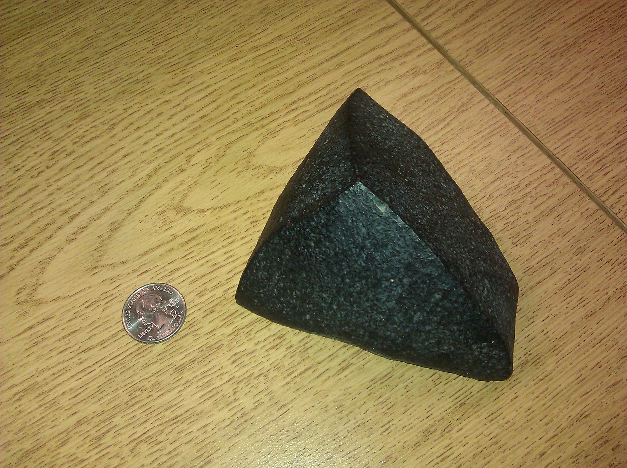 A three-sided, wind blown ventifact. Collected from the Wind River Basin, Wyoming, USA.